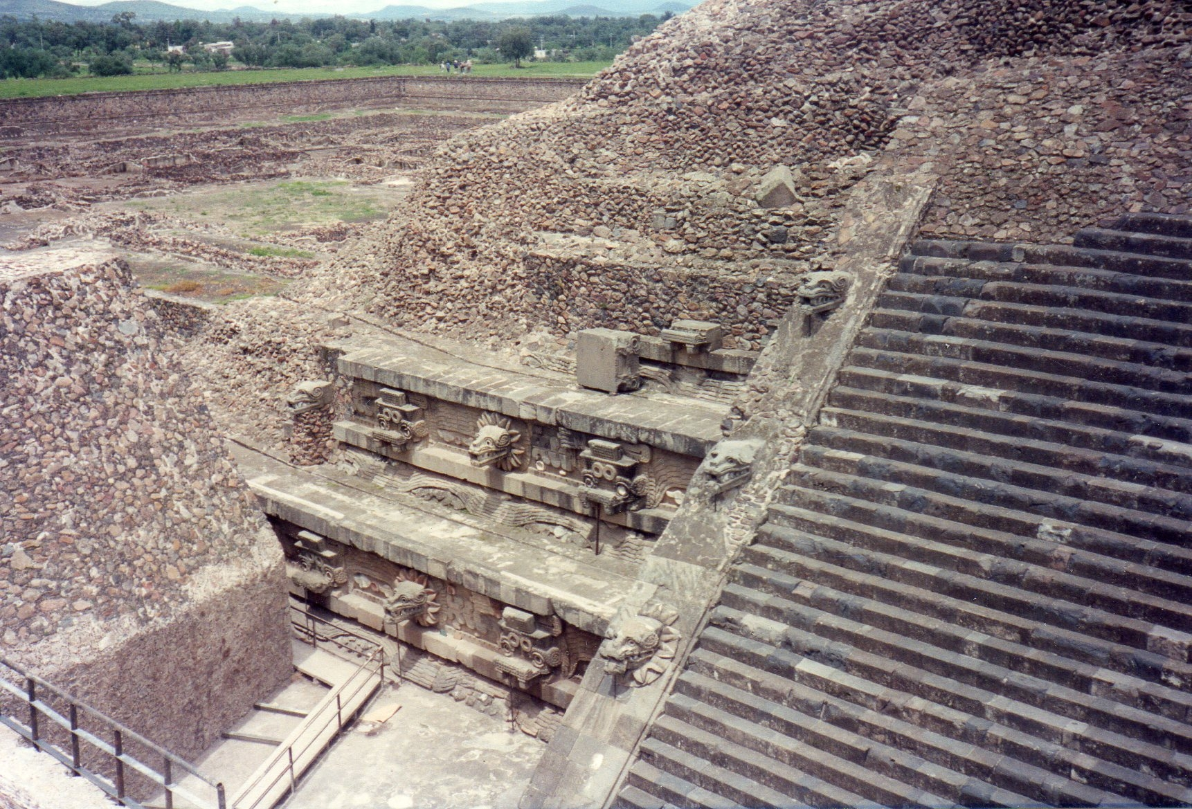 Temple of Quetzalcoatl in Teotihuacan